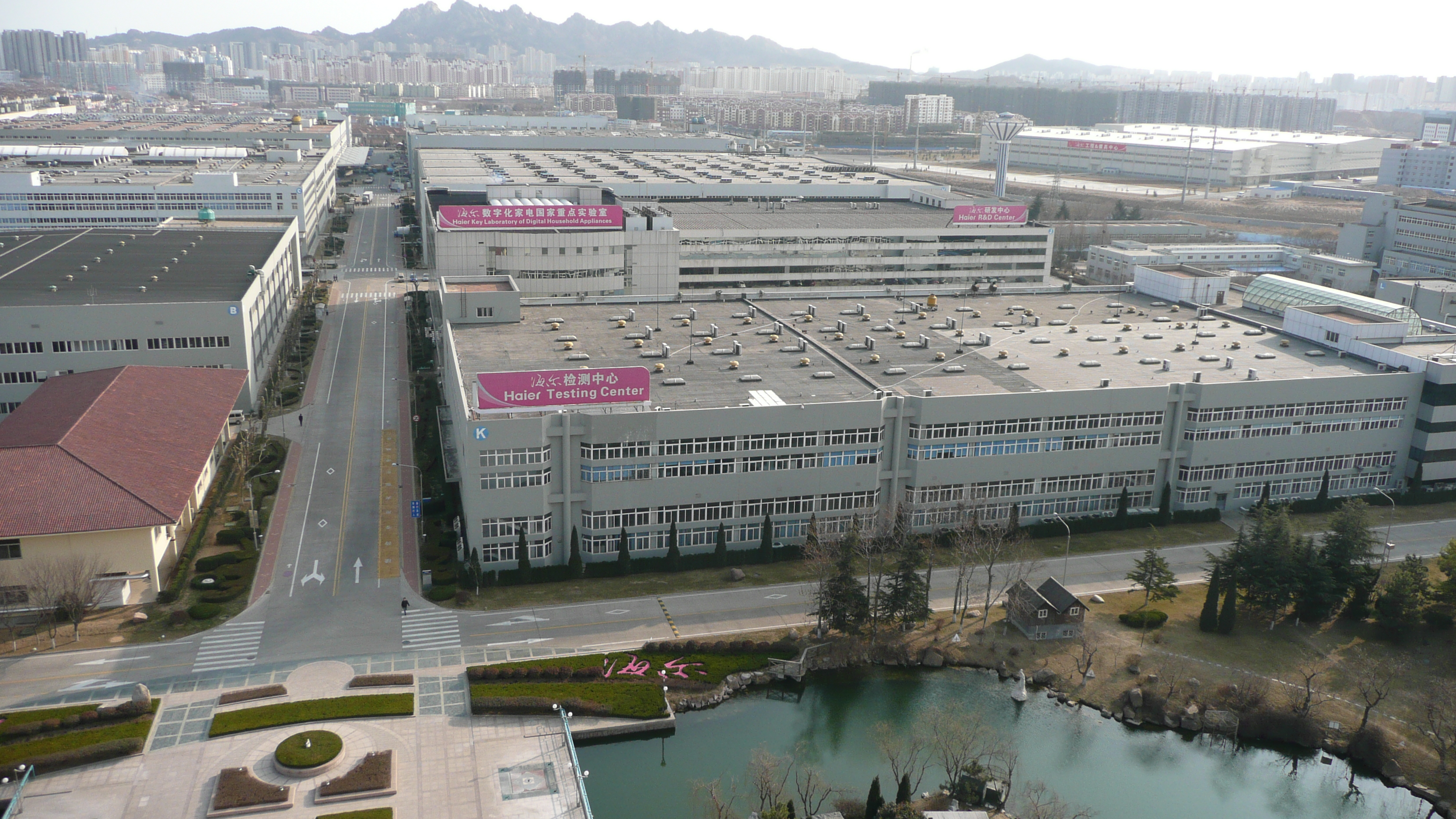 Haier Industrial Park in Qingdao